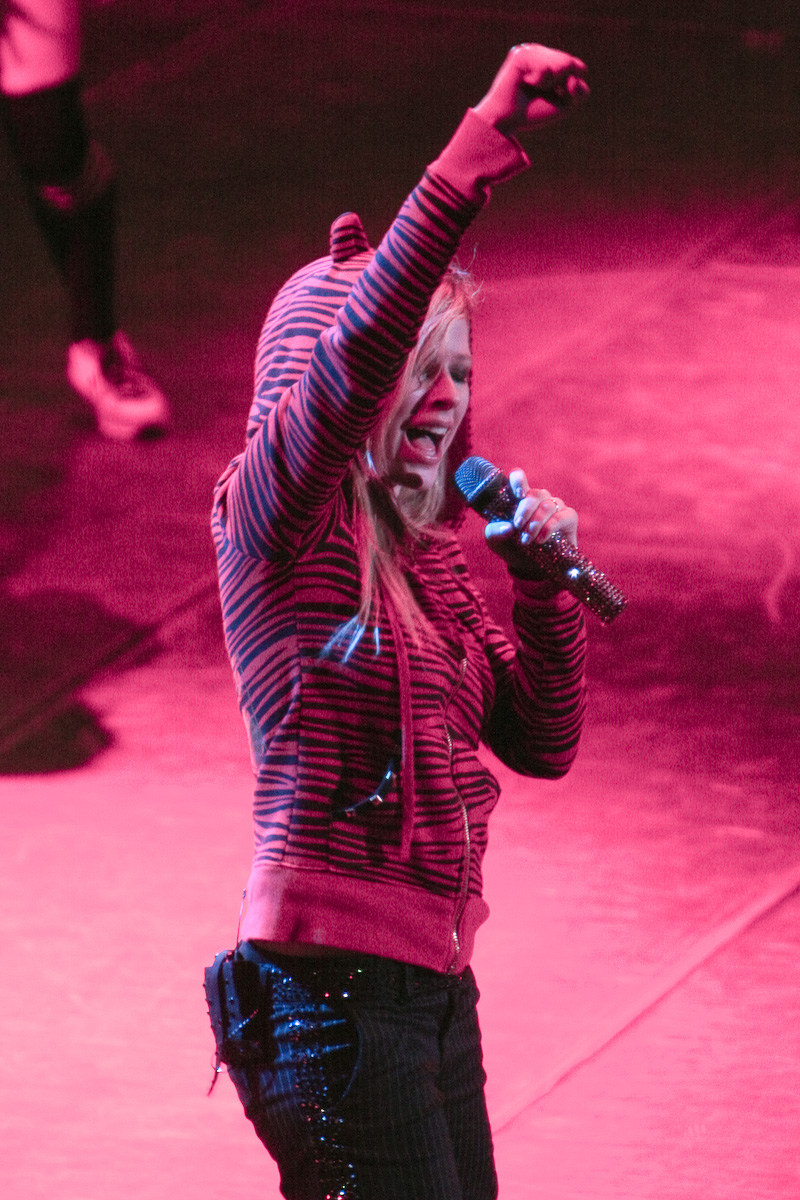 Avril Lavigne "The Best Damn Tour", Beijing Wukesong Arena, October 2008